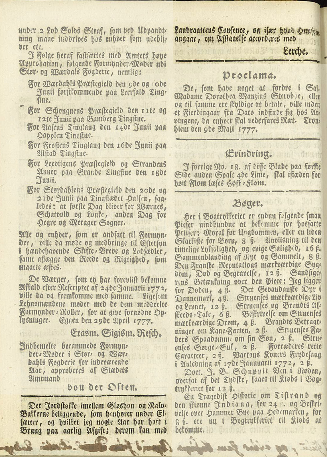 An advertisement informing of the sale of Lerchendal, "especially the houses" - since Lerche, who had written the ad., was leasing the ground on which the houses were erected